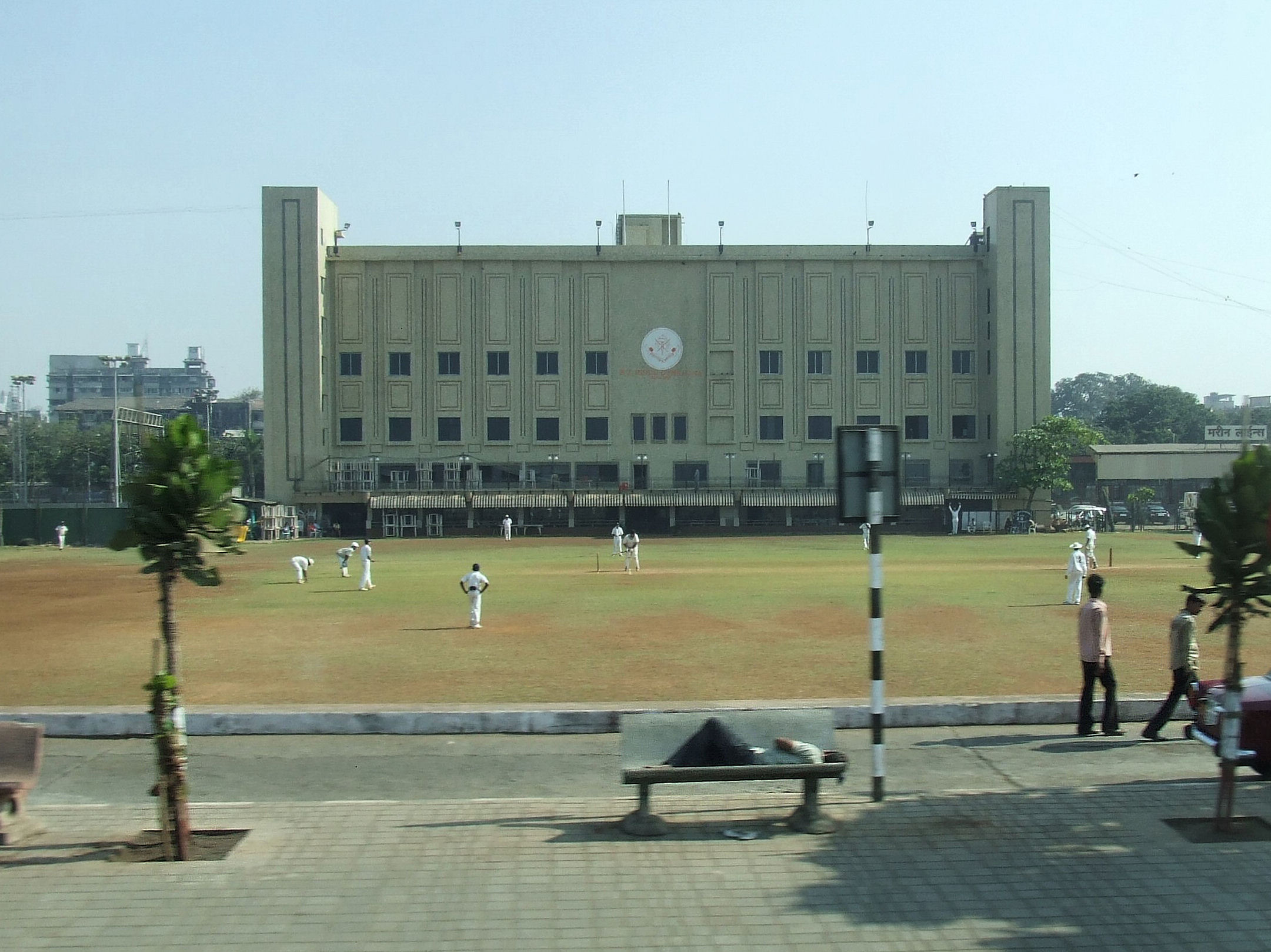 Cricket played at the Hindu Gymkhana with clubhouse in background, Mumbai.